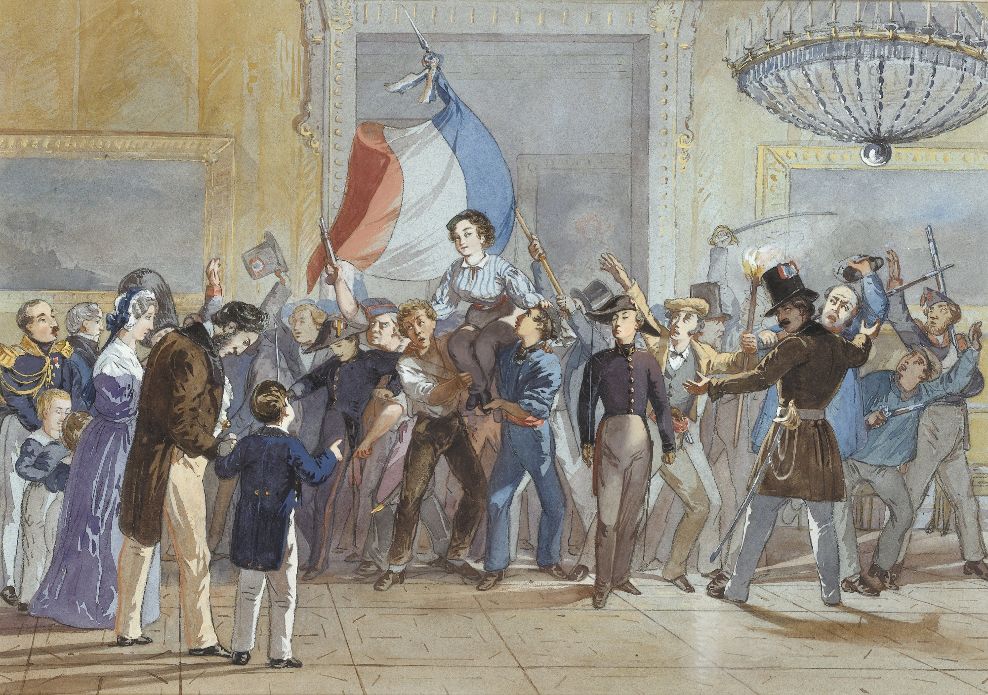 Watercolor by François d'Orléans, prince de Joinville (1818-1900) - La révolution de 1830, le 31 juillet